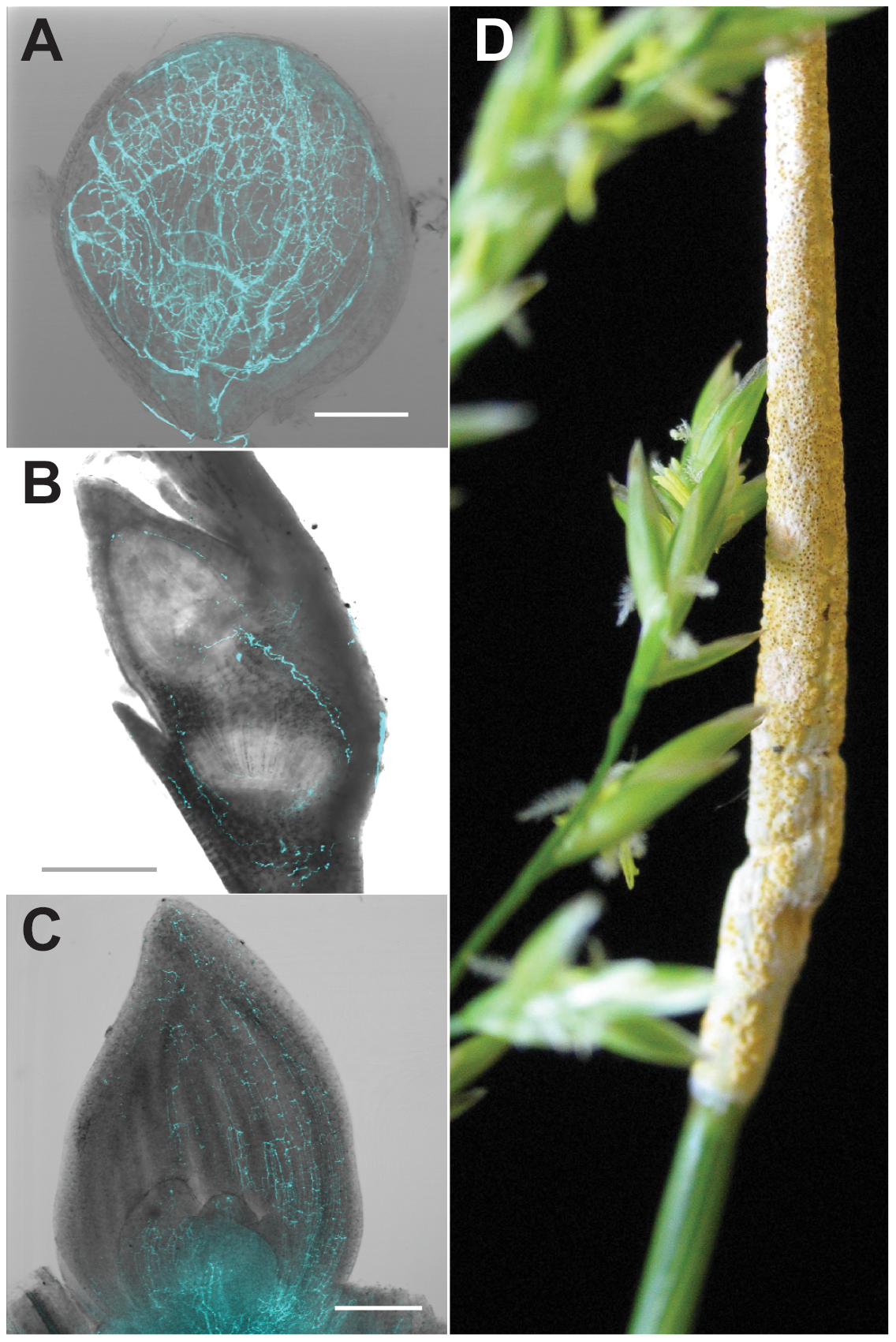 Symbiosis of meadow fescue with Epichloë festucae, a heritable symbiont. Single optical slice confocal micrographs of E. festucae expressing enhanced cyan-fluorescent protein were overlain with DIC bright field images of (A) ovules (bar = 100 µm), (B) embryos (bar = 200 µm), and (C) shoot apical meristem and surrounding new leaves (bar = 200 µm). (D) Asymptomatic (left) and “choked” (right) inflorescences simultaneously produced on a single grass plant infected with a single E. festucae genotype. Vertical (seed) transmission of the symbiont occurs via the asymptomatic inflorescence, whereas the choked inflorescence bears the E. festucae fruiting structure (stroma), which produces sexually derived spores (ascospores) that mediate horizontal transmission.